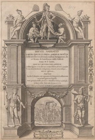 Theodorus de Bry, Brevis Narratio (1591) title page